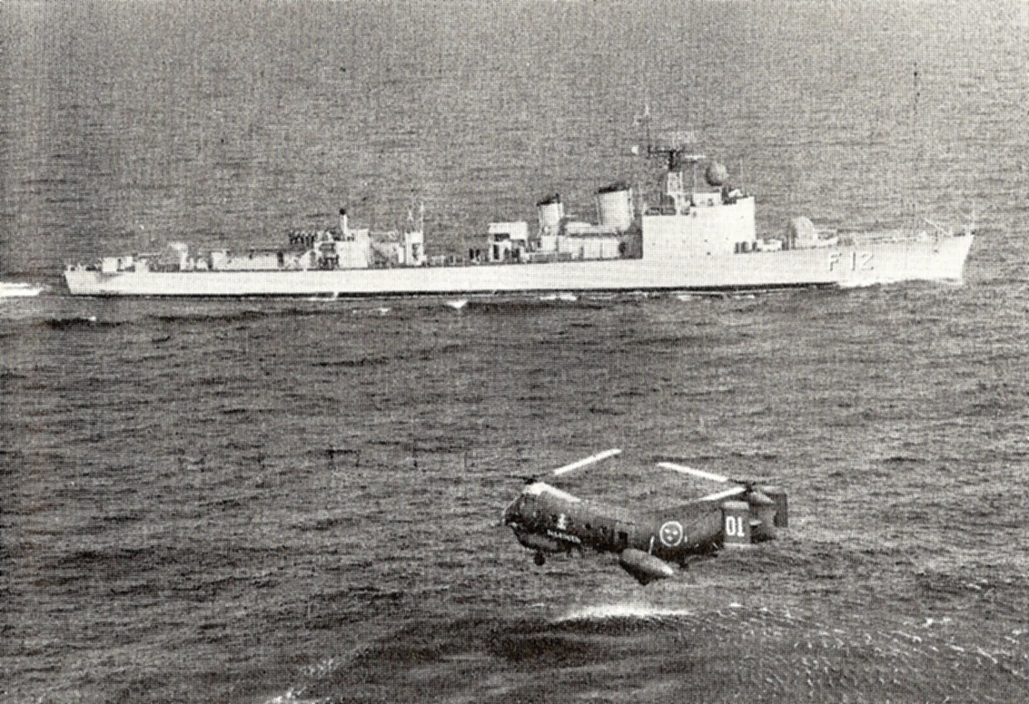 The swedish frigate HMS Sundsvall.